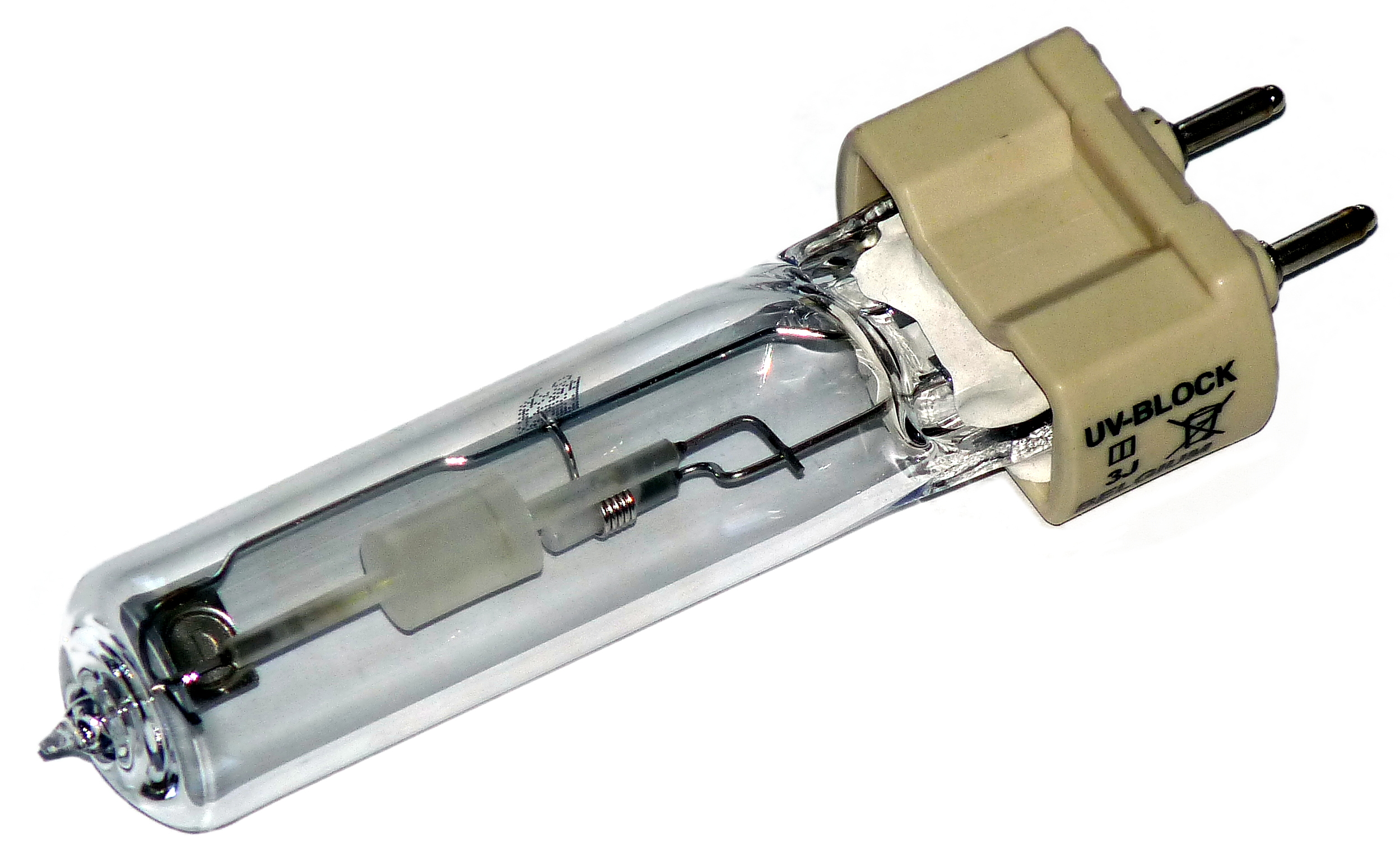 35W metal halide light bulb